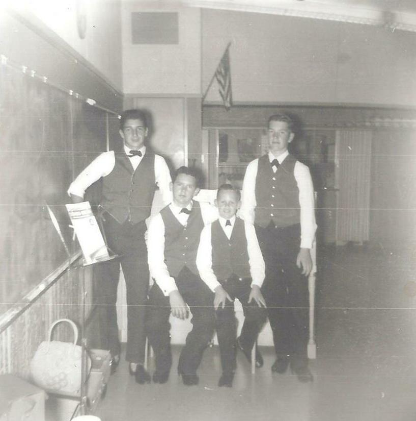 John Barbata posing with his band mates in the the 9th grade.